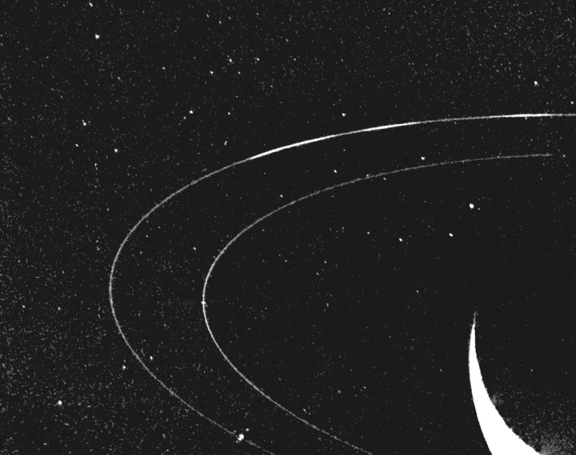 Image of Neptune's rings acquired by Voyager 2 in August 1989. The Adams and Leverrier rings are visible along with the Liberté, Egalité, and Fraternité arcs (right to left). This is a 111 second exposure obtained through the clear filter with the wide-angle camera [1].